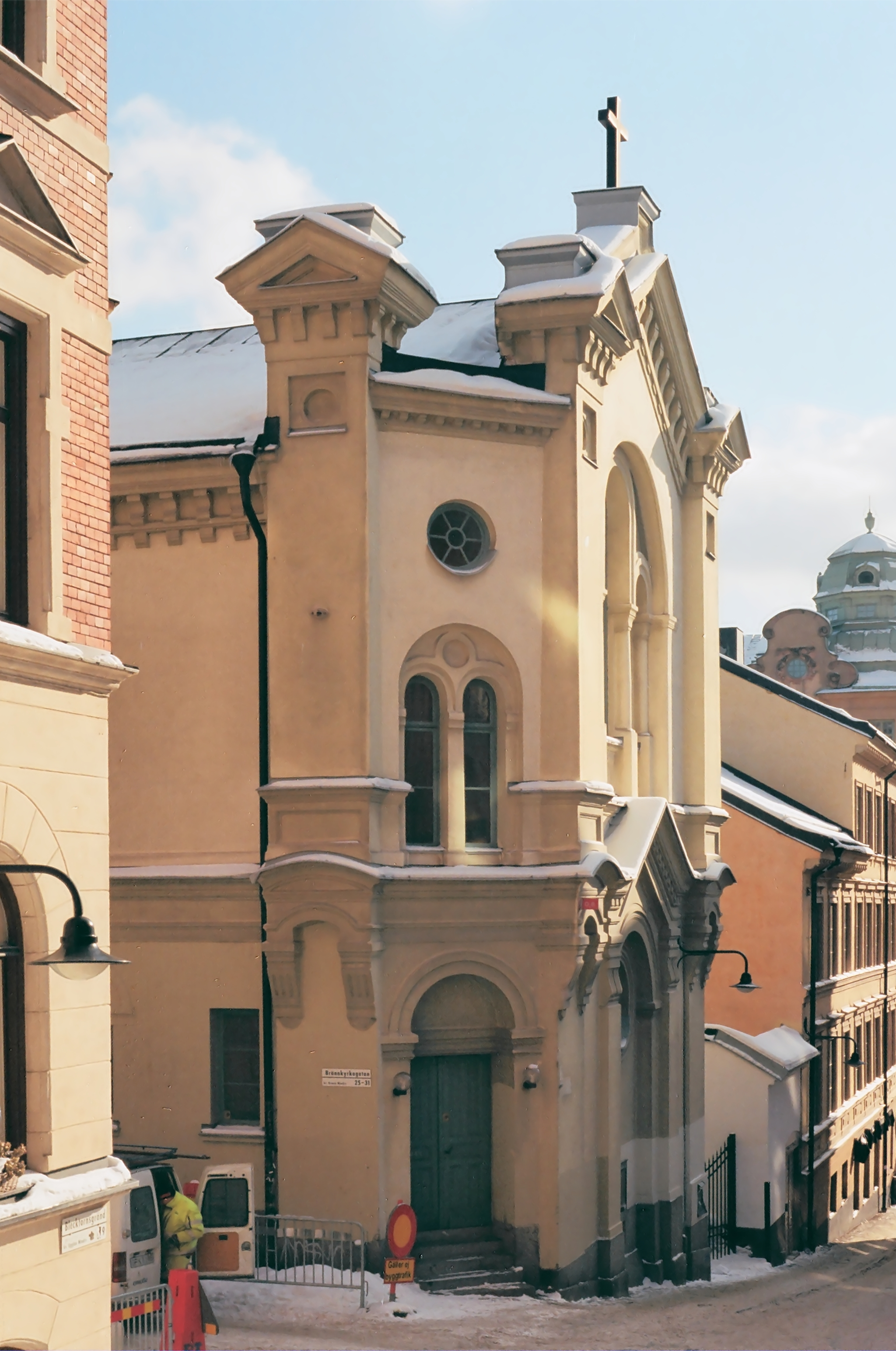 Söderhöjdskyrkan.